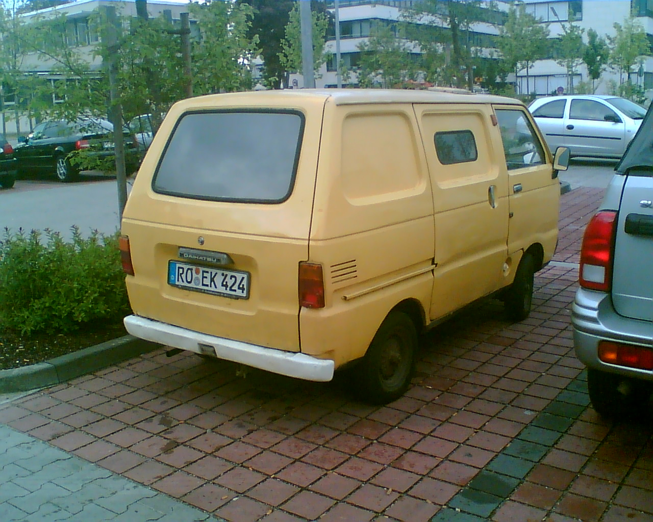 Own Pic, shows an old Daihatsu Van in front of a Supermarket in Munich, Germany